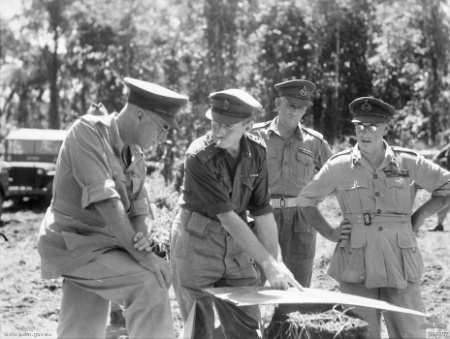 Lieutenant General V.A.H. Sturdee, GOC First Army, has enemy positions explained to him on the map by Brigadier H.H. Hammer, comd 15 Infantry Brigade (2), during his visit to HQ 15 Infantry Brigade and the Puriata River Area. Identified Personnel Are:- Major General W. Bridgeford, GOC 3 Division (3); Lieutenant General S.G. Savige, GOC II Corps (4).